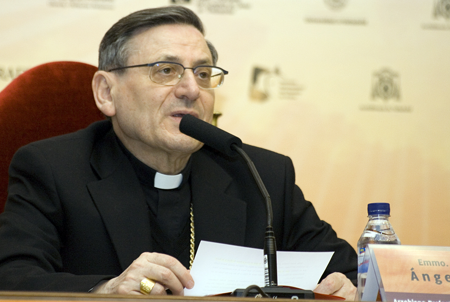 Angelo Amato in a conference in Valladolid, Spain.